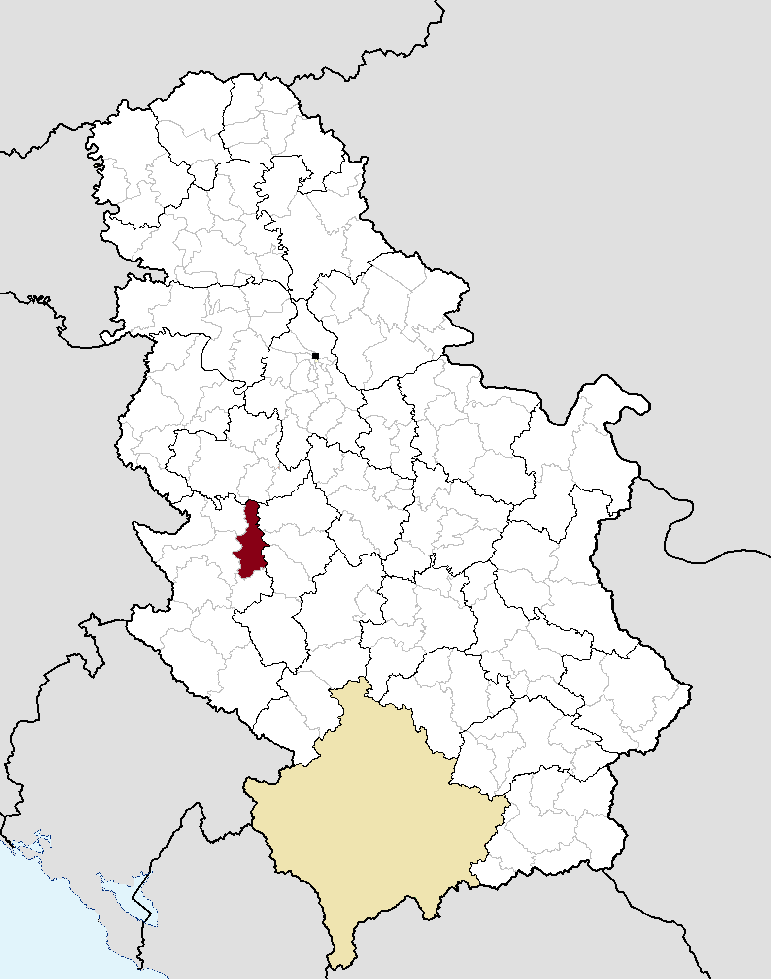 Municipal location in Serbia